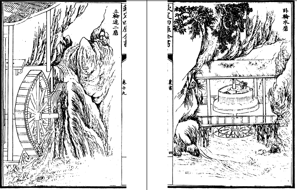 illustration of a water mill in Nong Shu by Wang Zhen